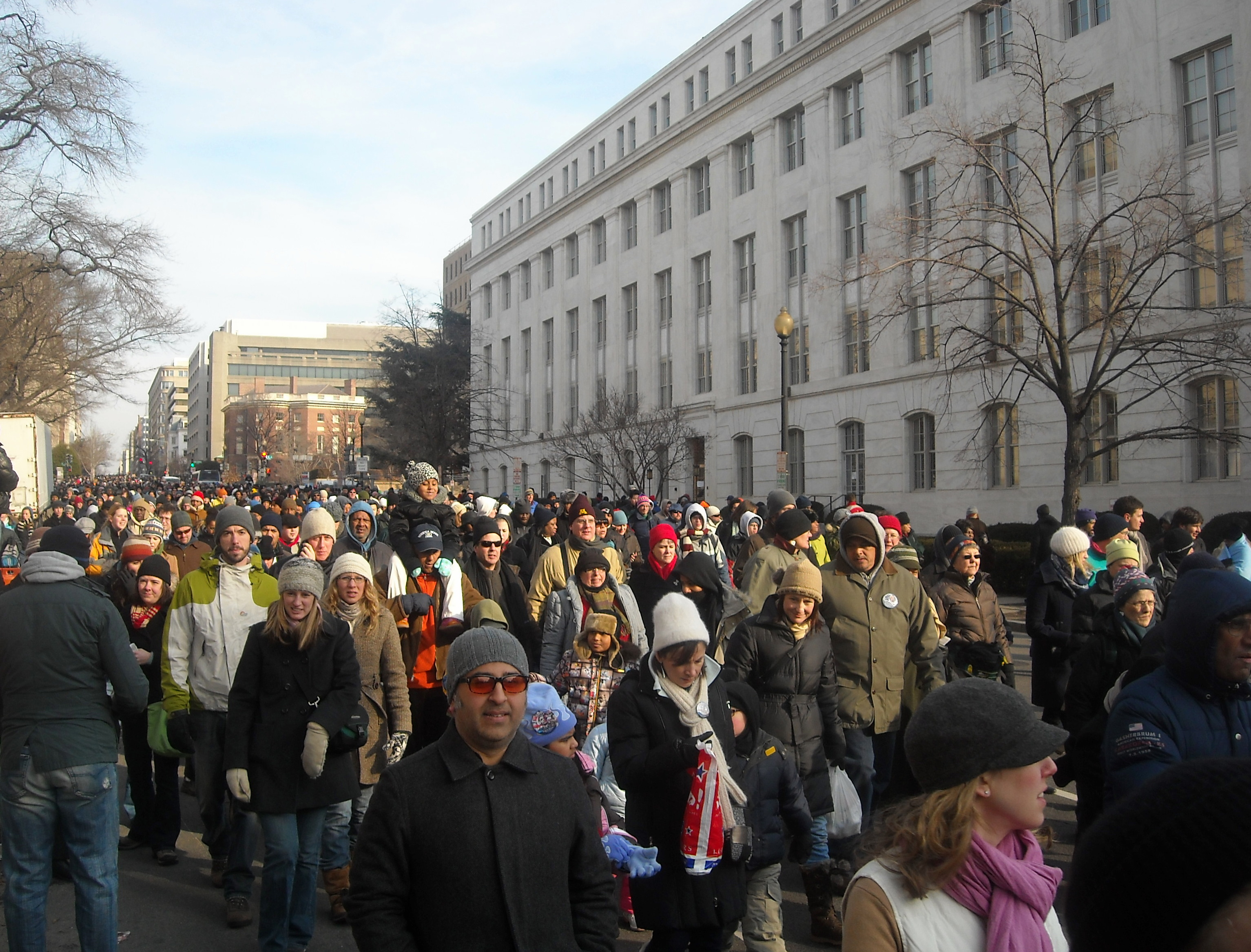 Crowds walking down 18th Street, NW towards the National Mall in Washington, D.C. to attend Barack Obama's presidential inauguration.